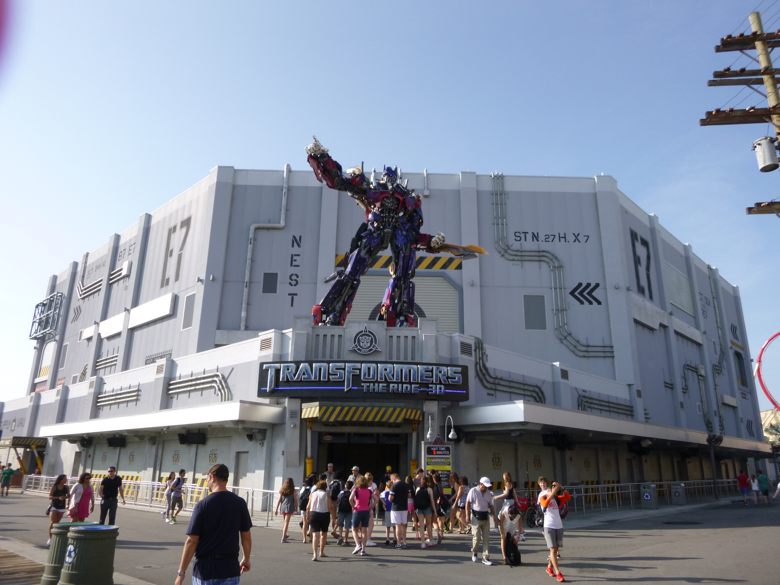 Building of Transformers: The Ride at Universal Studios Florida